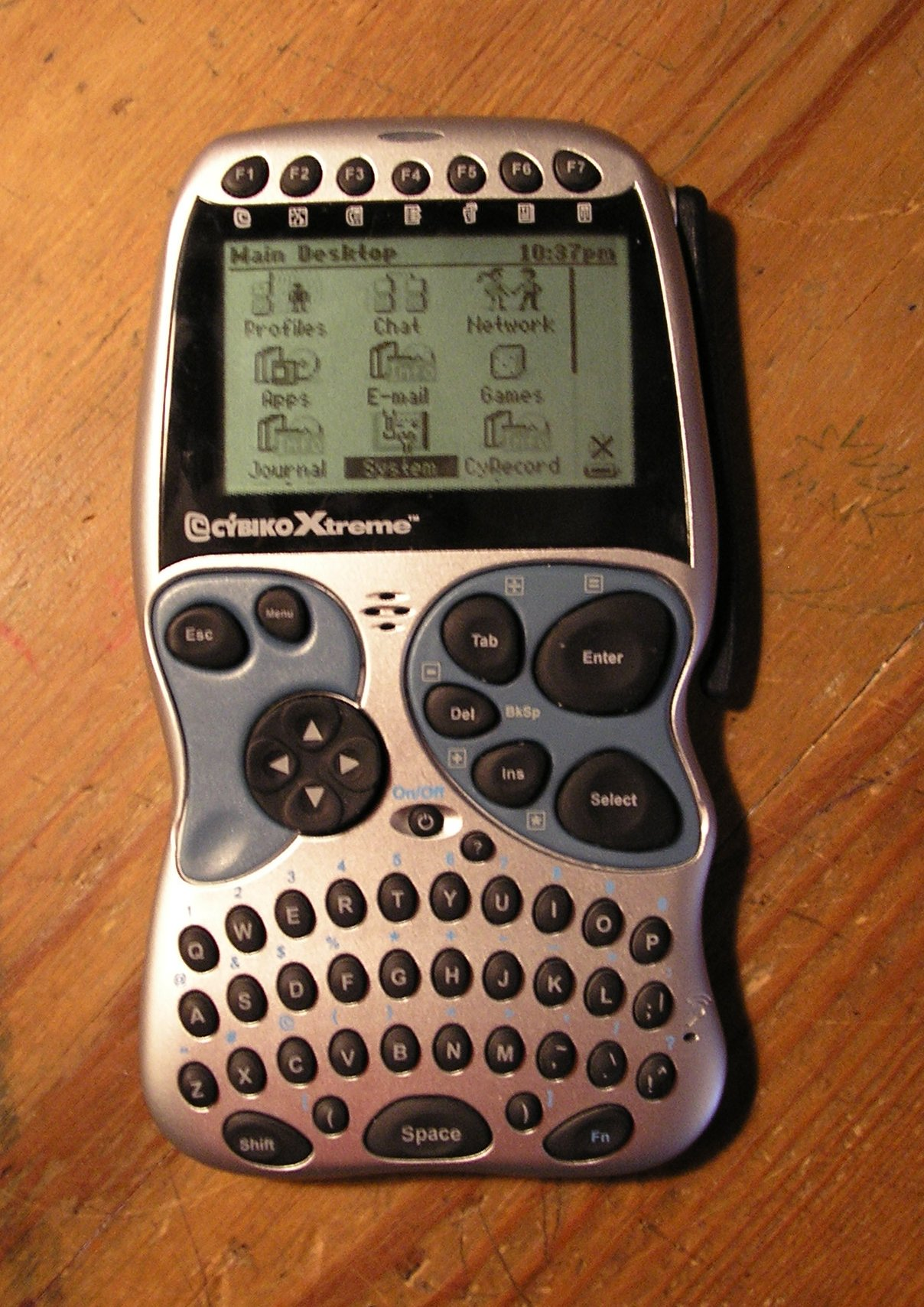 Cybiko Xtreme with antenna folded down.